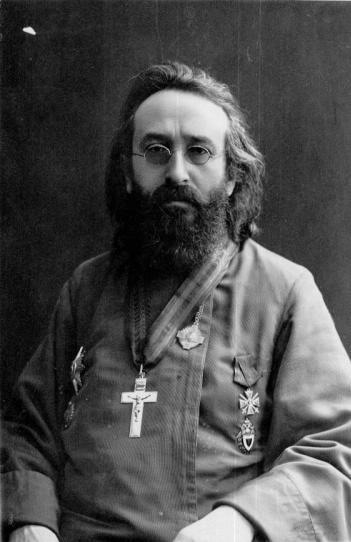 Protopresbyter Georgy N. Shavelsky